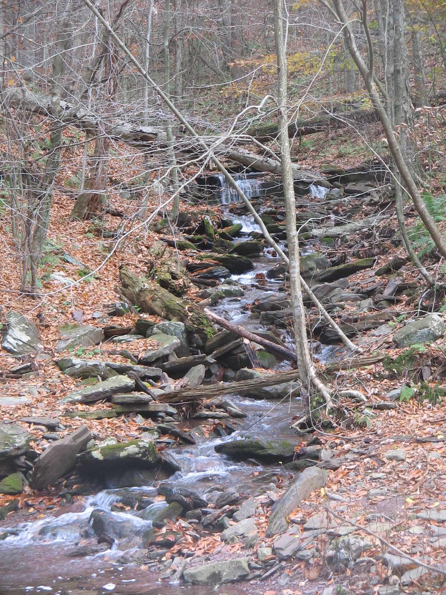 Partial view from creek level of Shingle Cabin Falls (25 feet (7.6 m) tall) on Shingle Cabin Branch, a tributary of Kitchen Creek in Ricketts Glen State Park, Fairmount Township, Luzerne County, Pennsylvania, USA. Going north from Pennsylvania Route 118, Shingle Cabin Branch enters Kitchen Creek just downstream of Murray Reynolds Falls, which is the first of three named waterfalls on Kitchen Creek, south and downstream of Waters Meet. The name Shingle Cabin Falls is from the book "Pennsylvania Waterfalls: a Guide for Hikers and Photographers" by Scott E. Brown, but this is not one of twenty two named waterfalls in the park, according to the Pennsylvania Department of Conservation and Natural Resources.